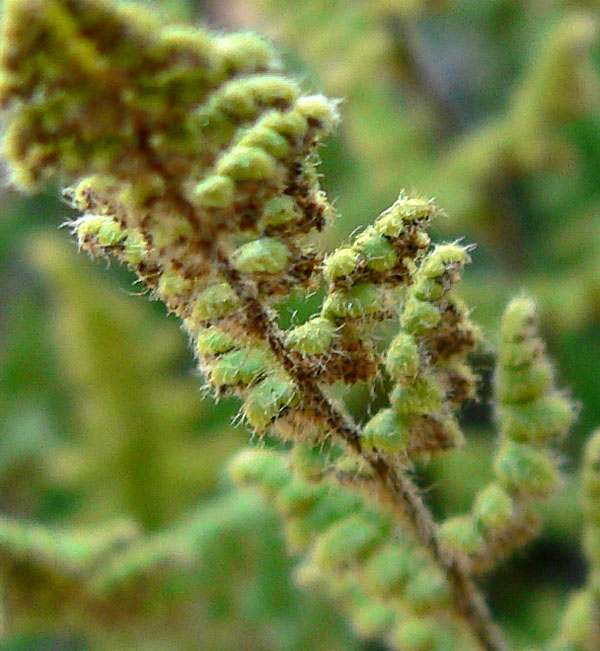 Cheilanthes lanosa at the University of California Botanical Garden, Berkeley, California